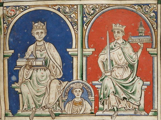 Portraits of English kings: Henry II, Henry the Younger and Richard I Lionheart. (British Library, MS Royal 14 C VII f.9)